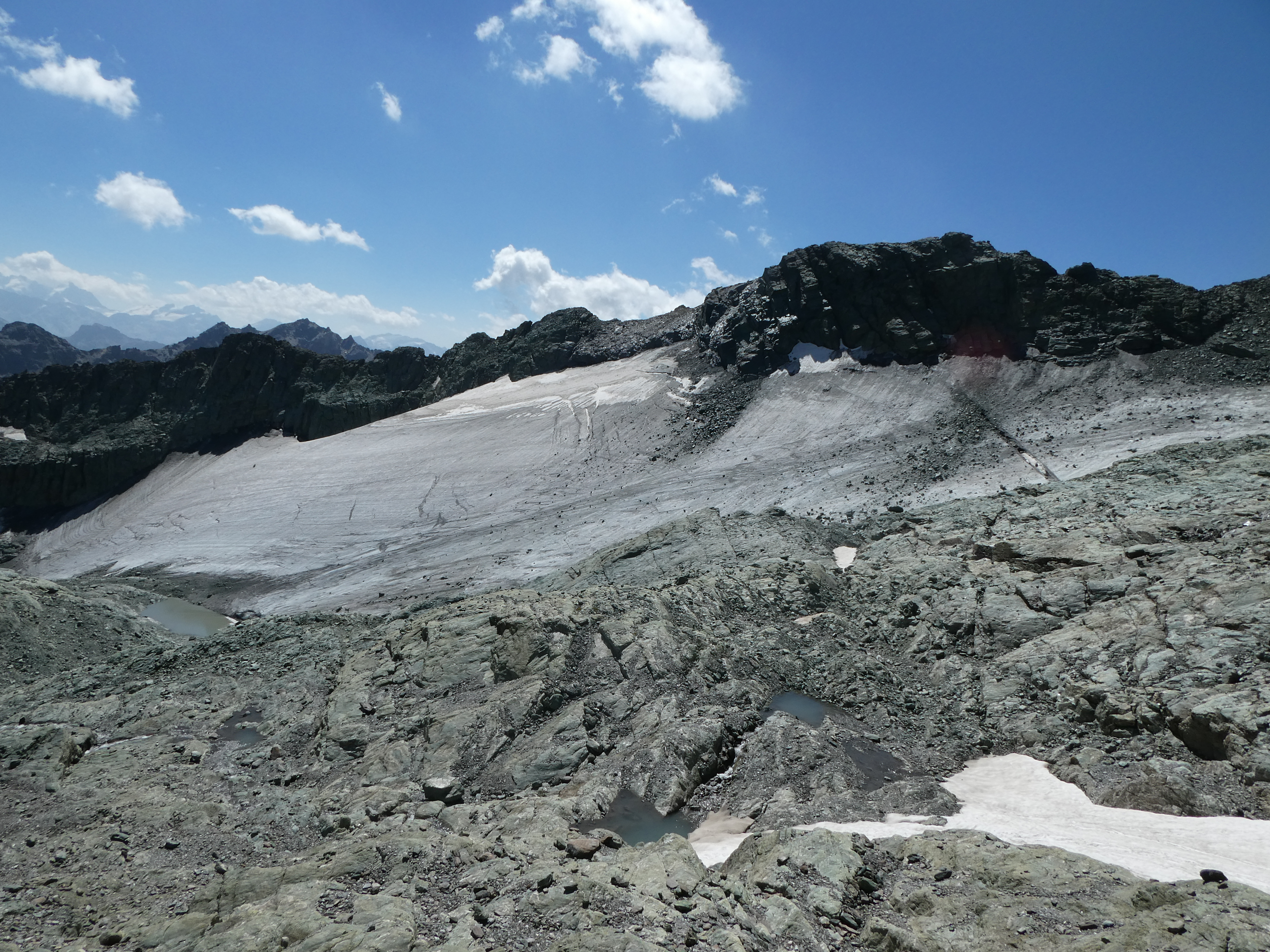 Vadret da Piz Platta (Surses, Grison, Switzerland)